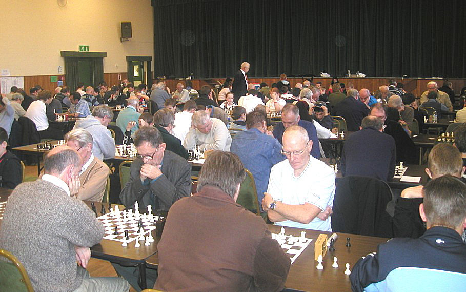 Chess congress, Ormskirk England 2005.